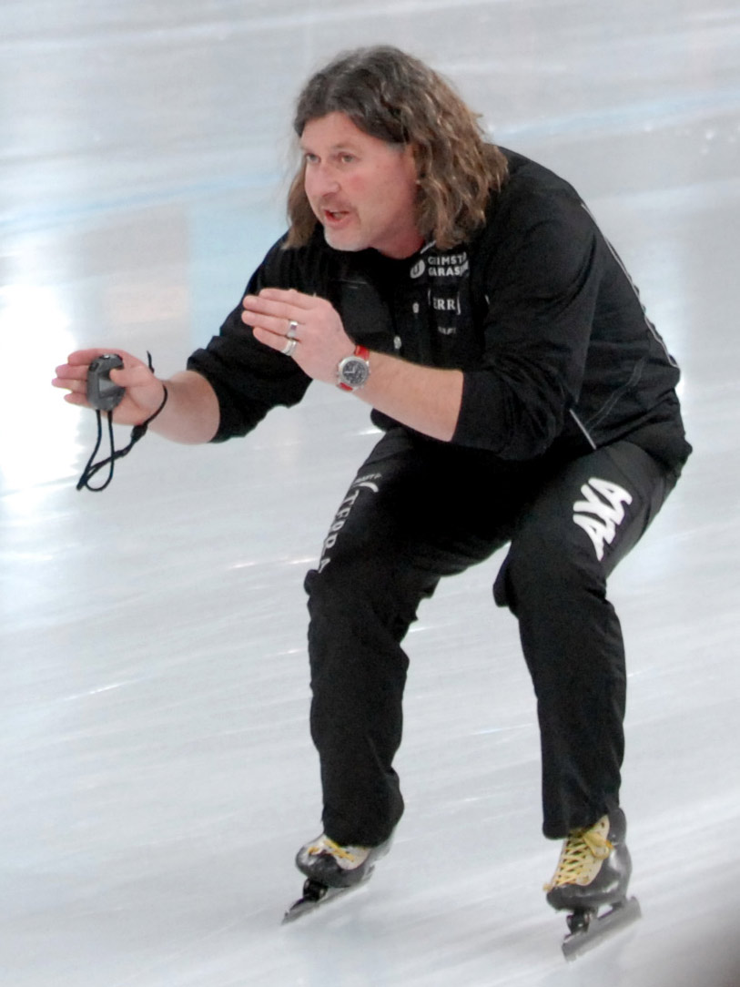 Peter Mueller coaching Håvard Bøkko at the World Championships in Hamar 2009